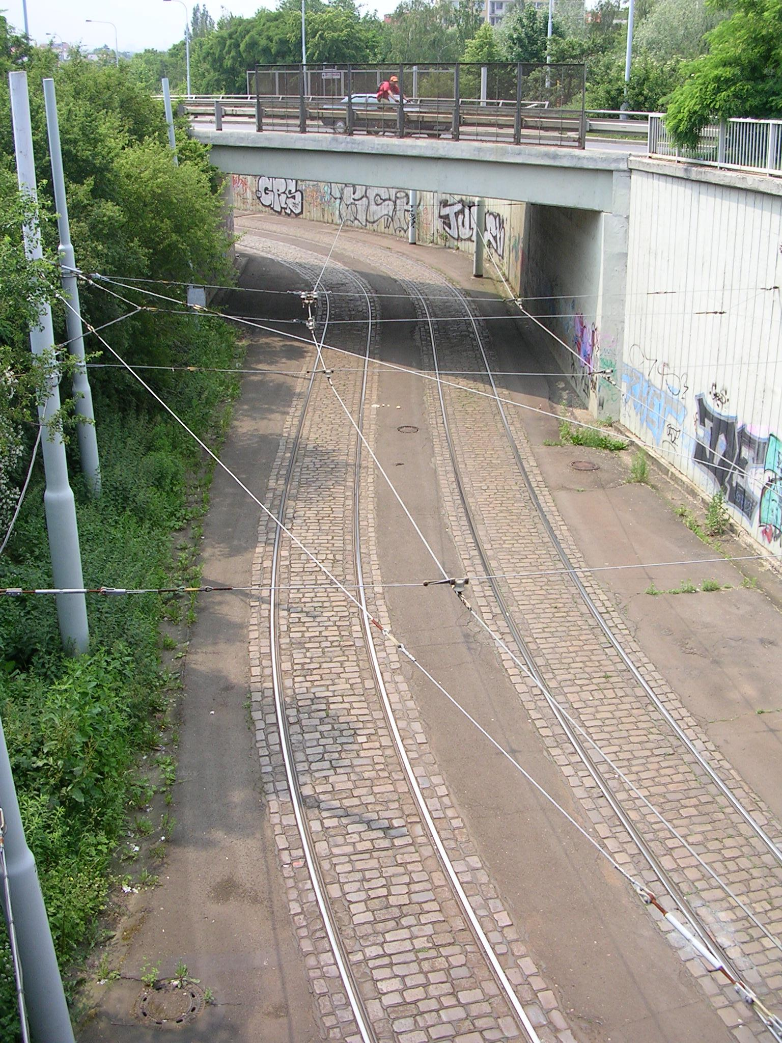 Praha-Hostivař. The Czech Republic.